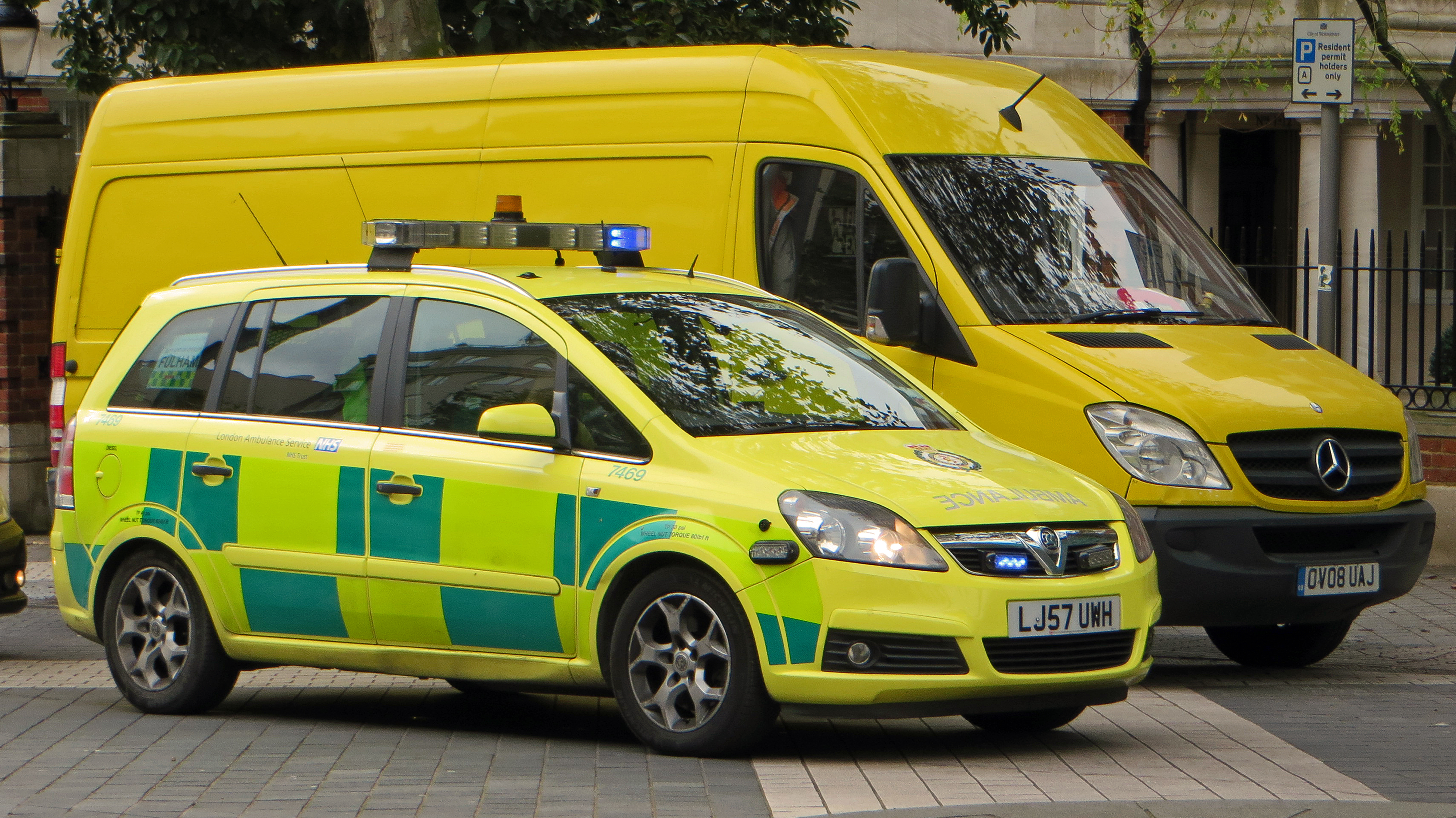 London Ambulance Service 2007 Vauxhall Zafira Design CDTI Nice VXR alloys...